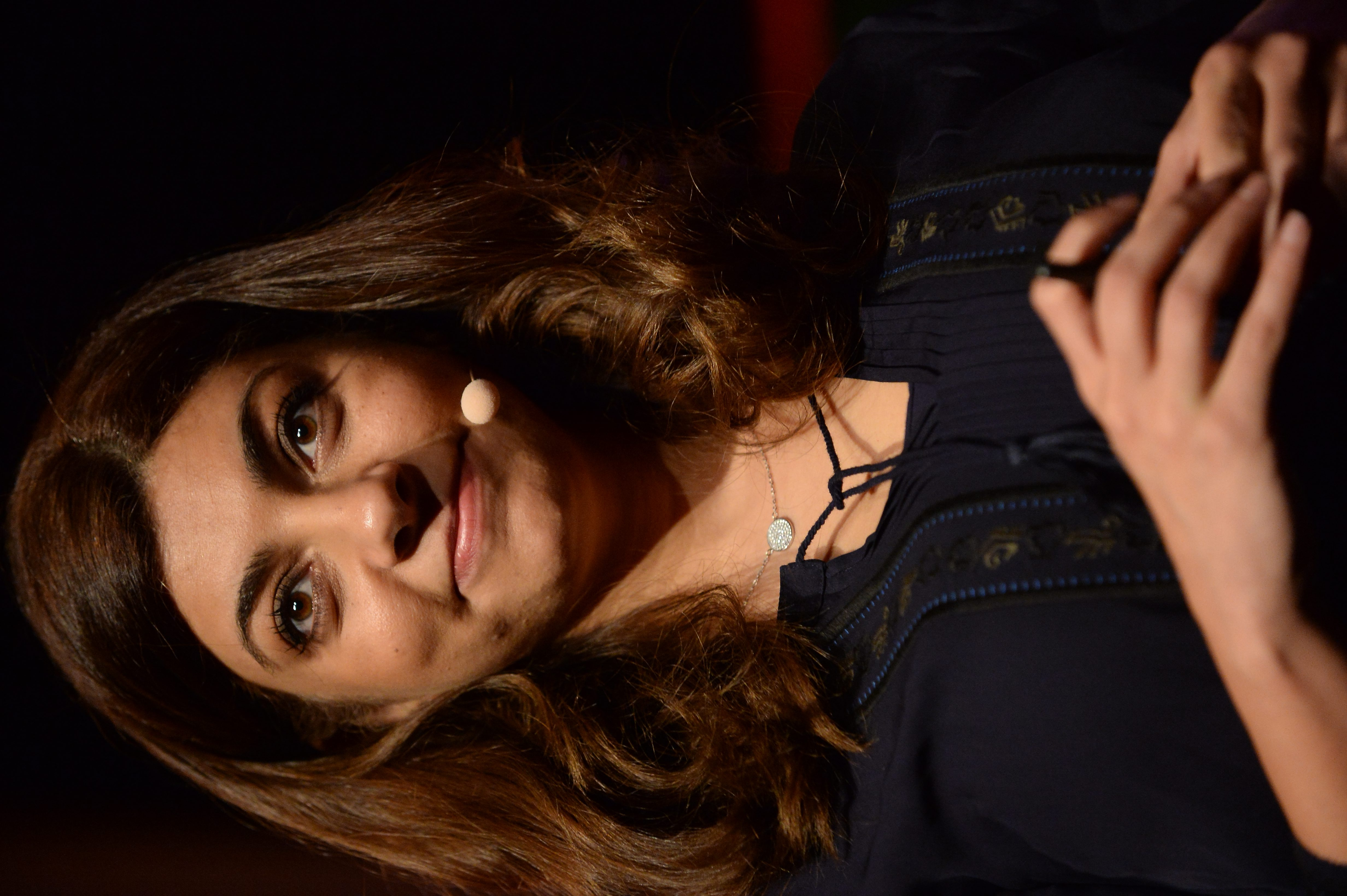 Sportsfile (Web Summit)